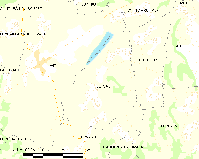 Map of French municipality Gensac